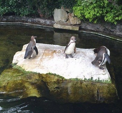 Penguins at Dublin Zoo